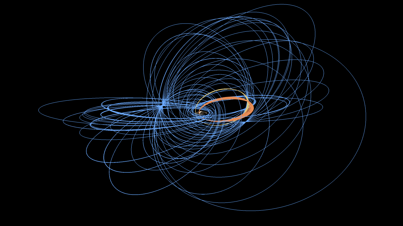 In this view created by Cassini's mission planning team, blue represents the Solstice mission orbits that began in 2010. Yellow represents the 20 Ring-Grazing (F ring) Orbits, the penultimate science phase of the mission. Orange represents the 22 Grand Finale orbits - Cassini's final exciting science phase.